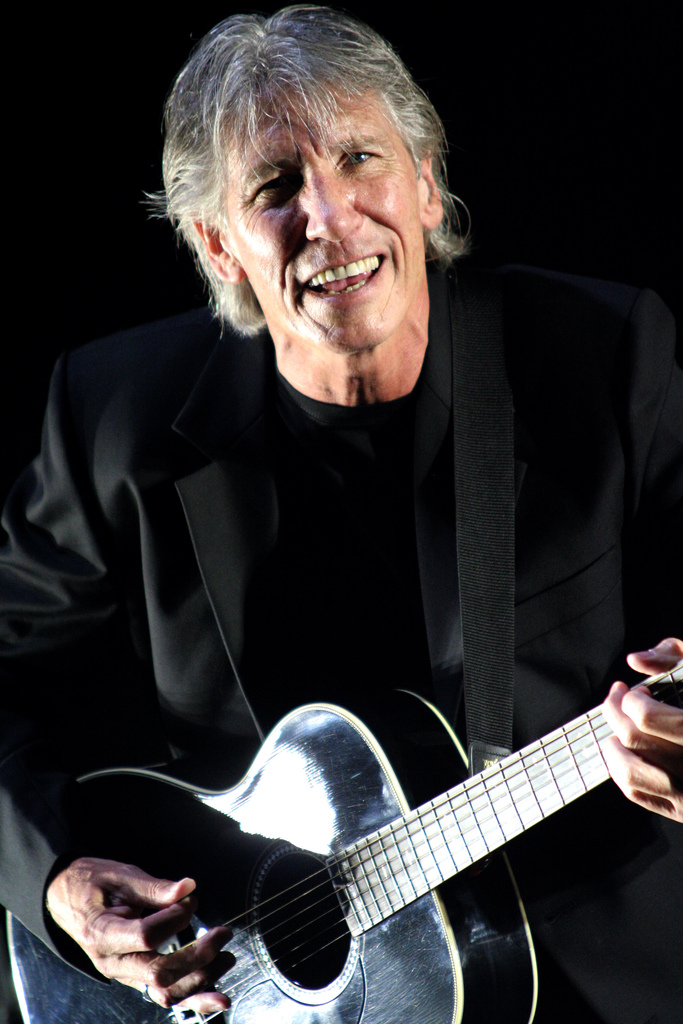 Roger Waters in concert, Morumbi Stadium, São Paulo, Brazil.